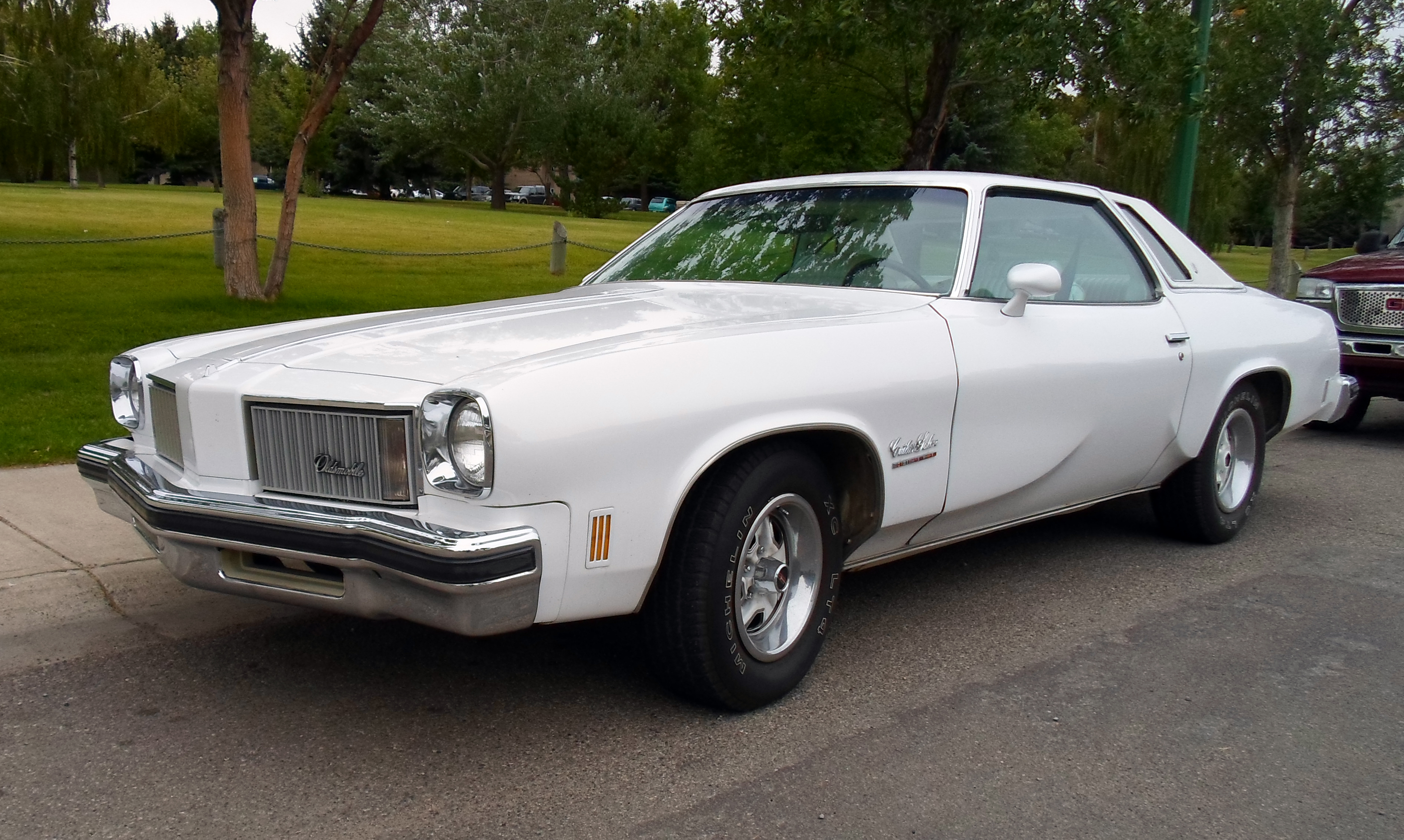 Nice to see a mid 70s Oldsmobile Cutlass in such good shape.